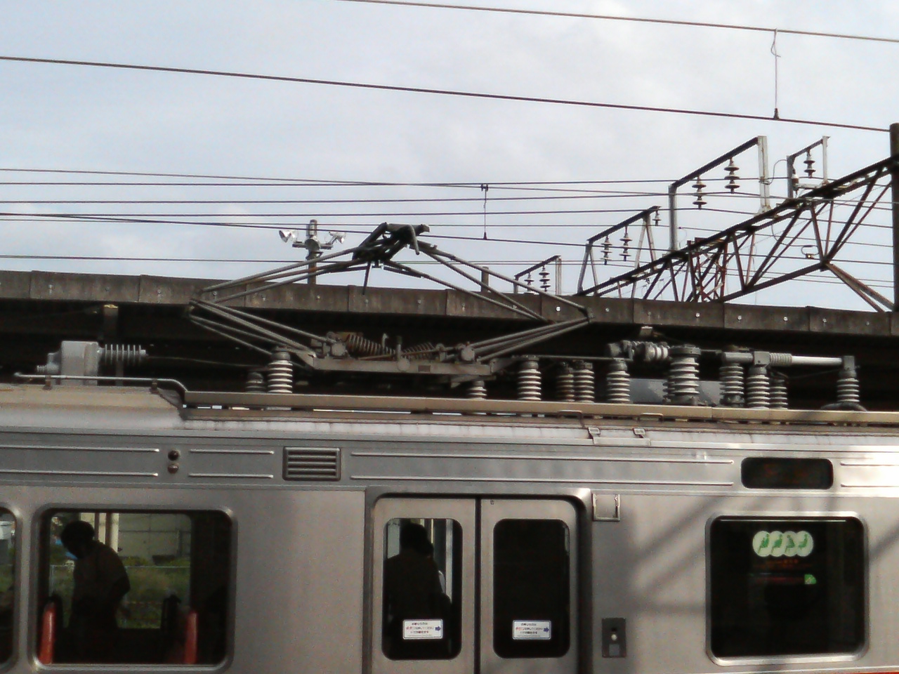 East Japan railway series 719 (pantograph).